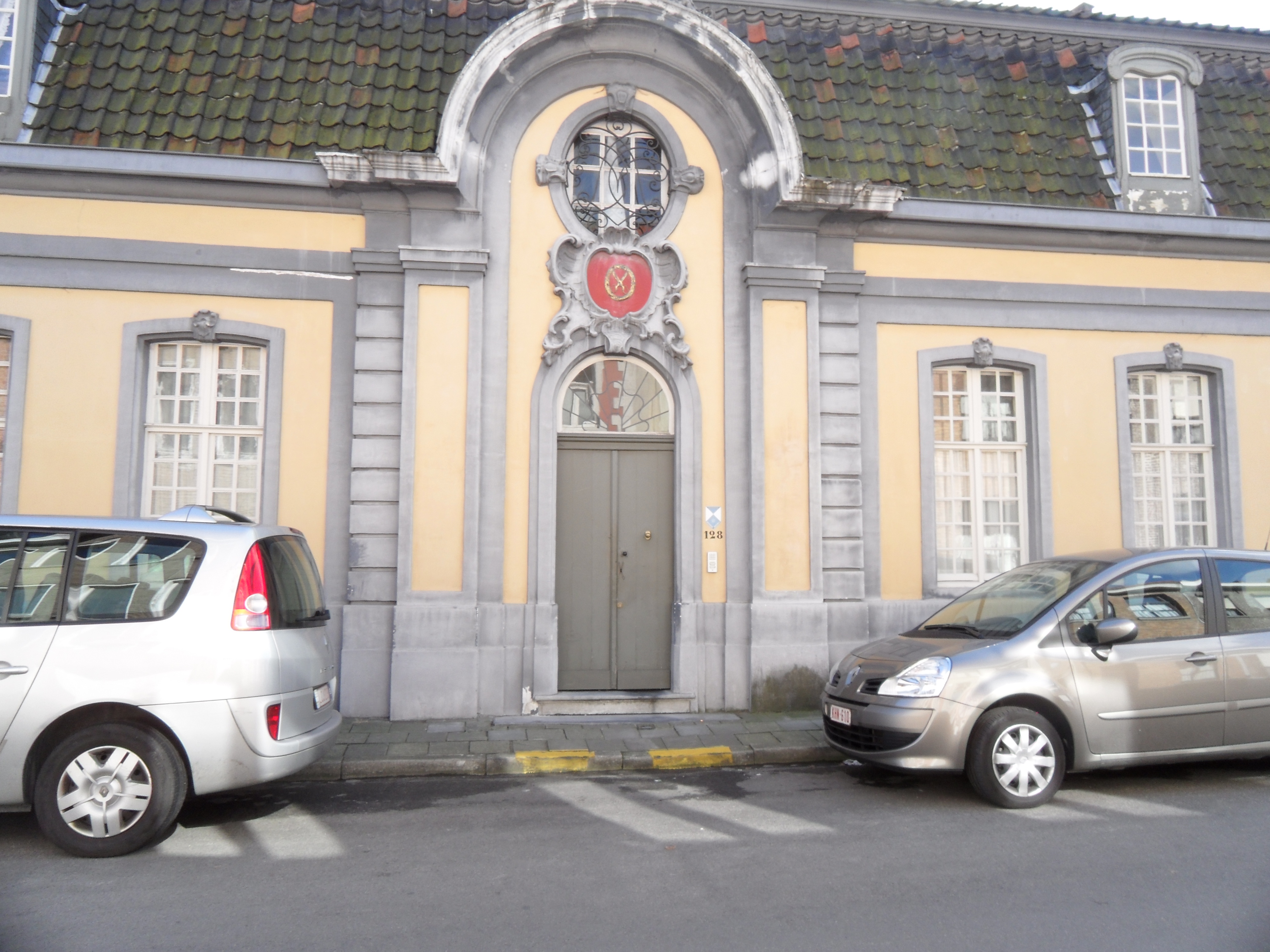 Kleermakers